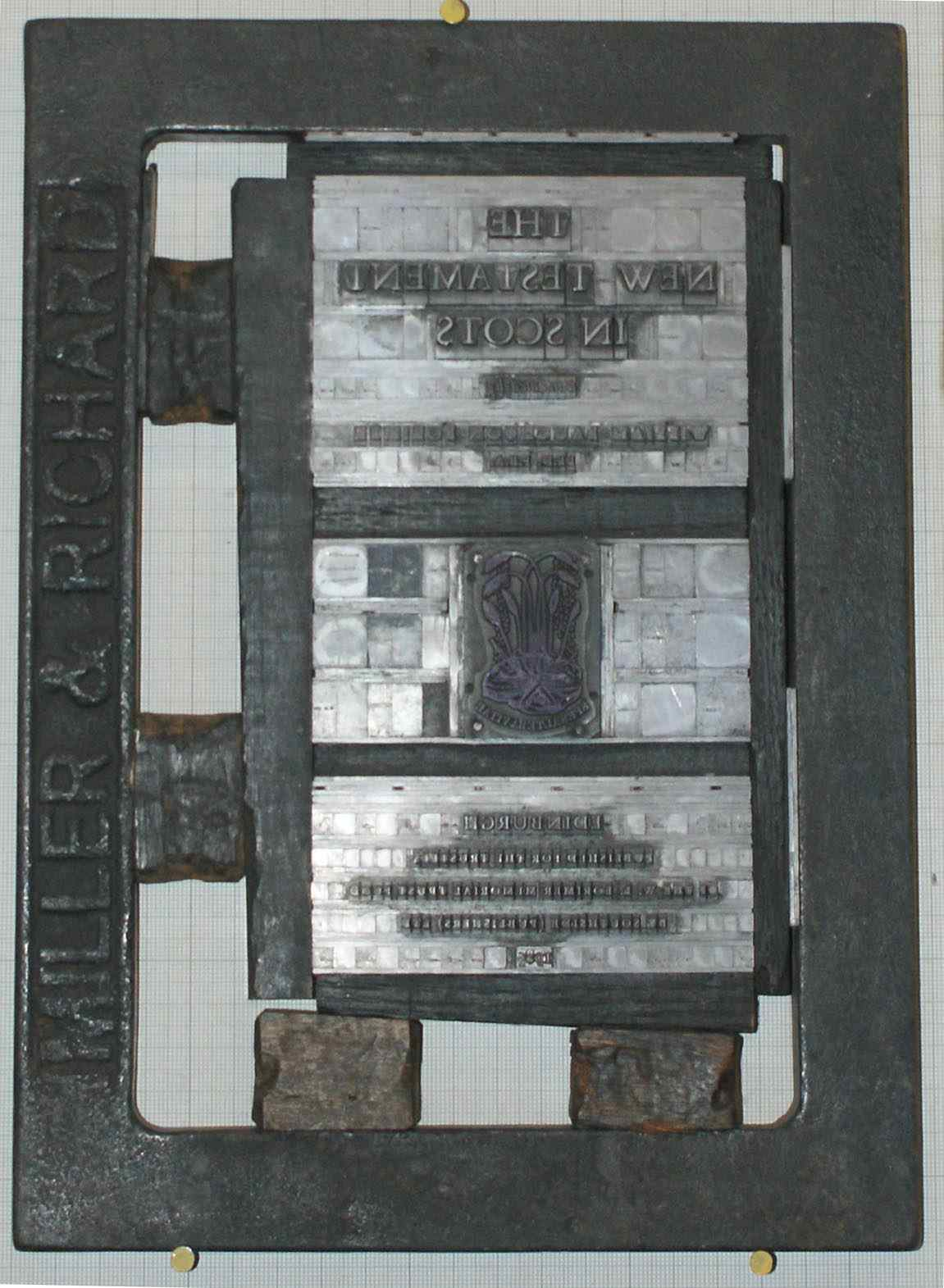 Printing form set in chase. Form is the New Testament in Scots. Chase is Miller & Richard. Accession Number: SH.2009.323 Miller & Richard were a world famous Edinburgh type foundry. The firm supplied type to print firms all over the globe. The company was established by William Miller, who had trained at Alexander Wilson?s foundry in Glasgow. In 1809 he began operations out of Reikies Court, just off Nicolson Street. It expanded to take in the surrounding buildings including a chapel, a school, a lying-in hospital and finally a street was roofed over to make a woodworking shop. By 1825 the company was type founders for His Majesty of Scotland and when he was joined by his son-in-law Walter Richard in 1838 the firm became Miller & Richard. Miller & Richard founded a strong reputation of typographic innovation. They were responsible for founts such as the Miller & Richard Oldstyle and its boldface, now known as Old Style or Century Oldstyle; and Antique Old Style, or Bookman. The foundry closed in 1952, when the designs passed to the English company Stephenson Blake. This item is on display at the People's Story Museum, The Canongate, Edinburgh. Edinburgh City of Print is a joint project between City of Edinburgh Museums and the Scottish Archive of Print and Publishing History Records (SAPPHIRE). The project aims to catalogue and make accessible the wealth of printing collections held by City of Edinburgh Museums. For more information about the project please visit